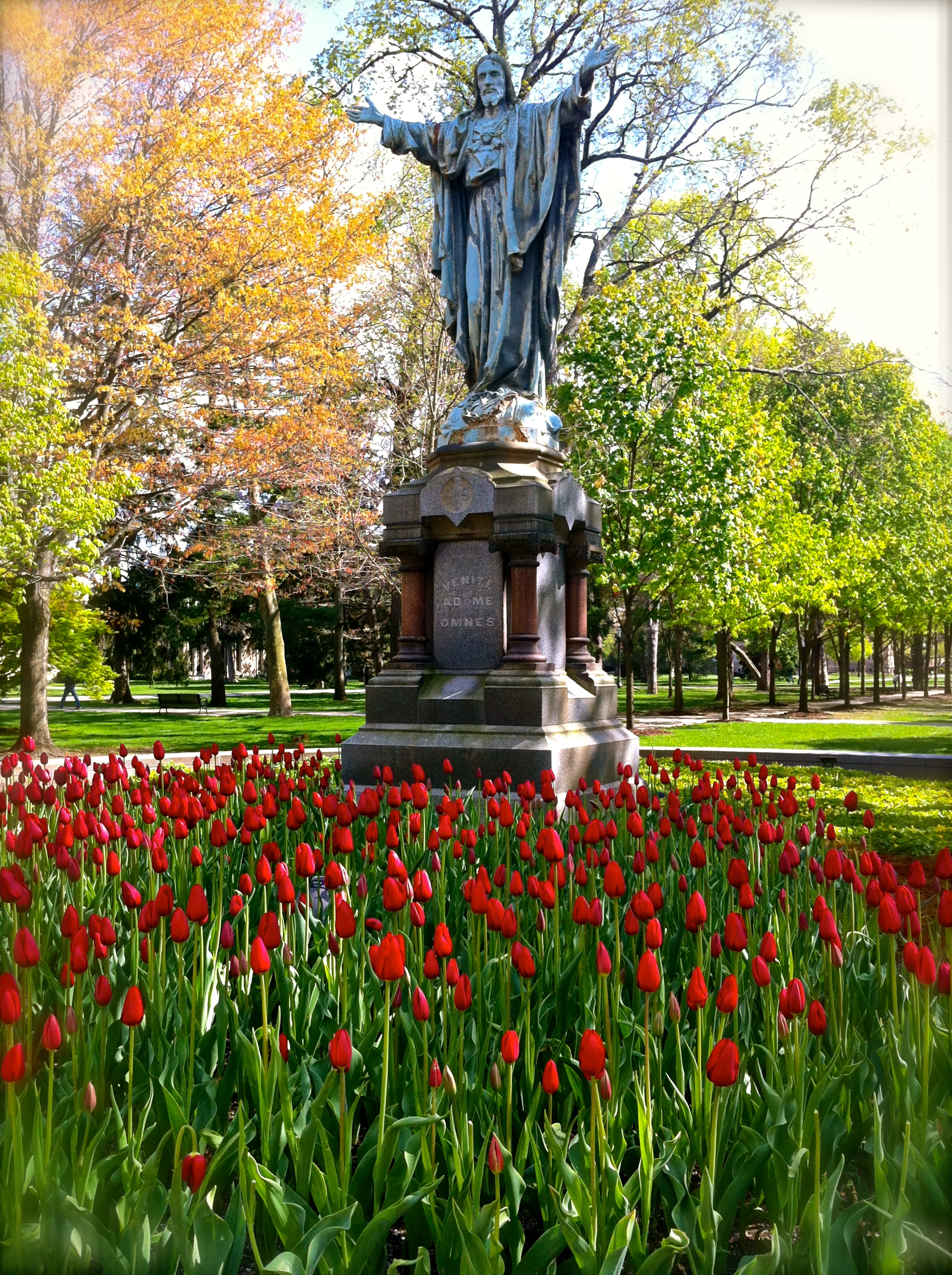 University of Notre Dame, 2012